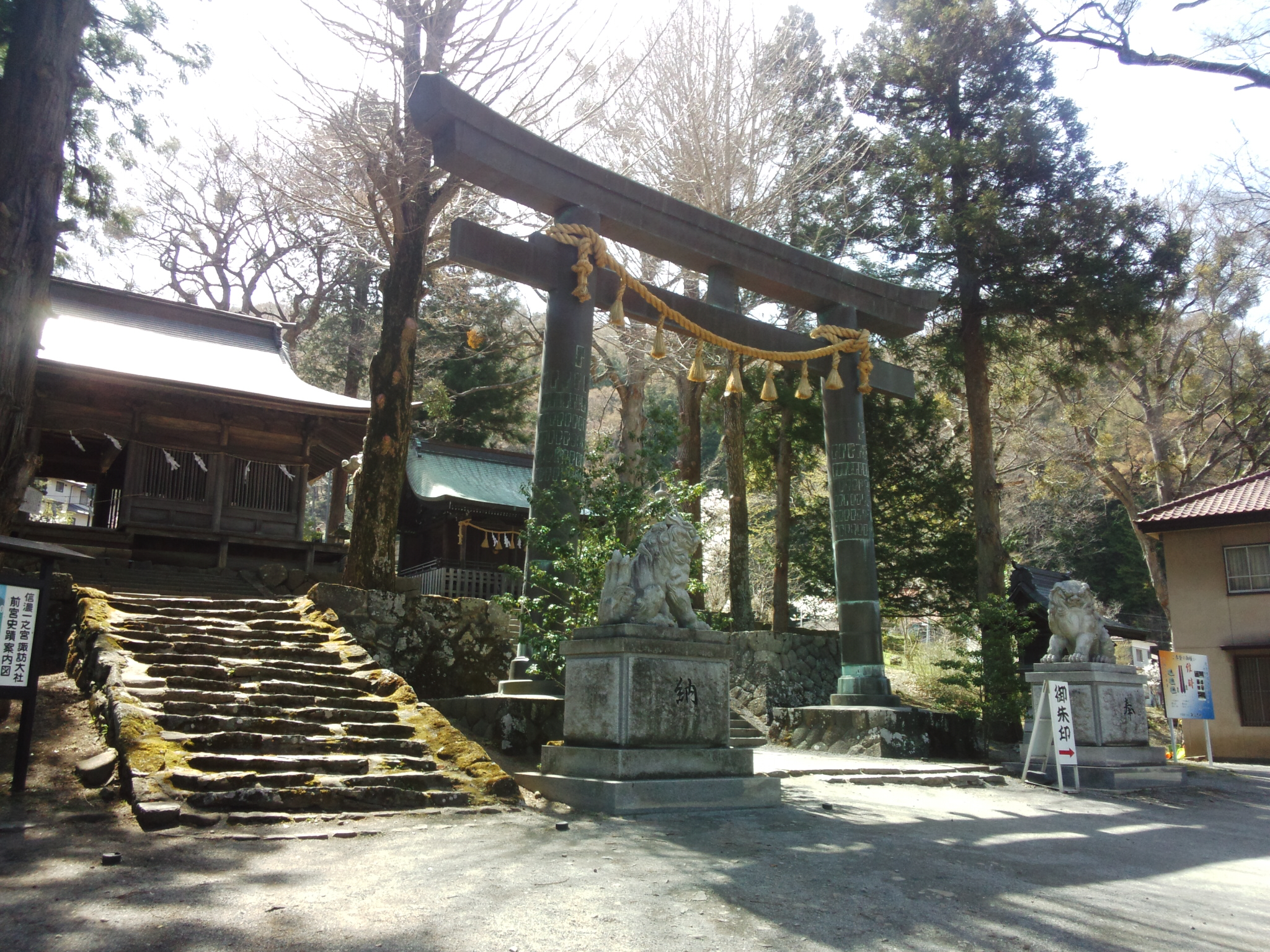 A torii gate in the Kamisha Maemiya complex